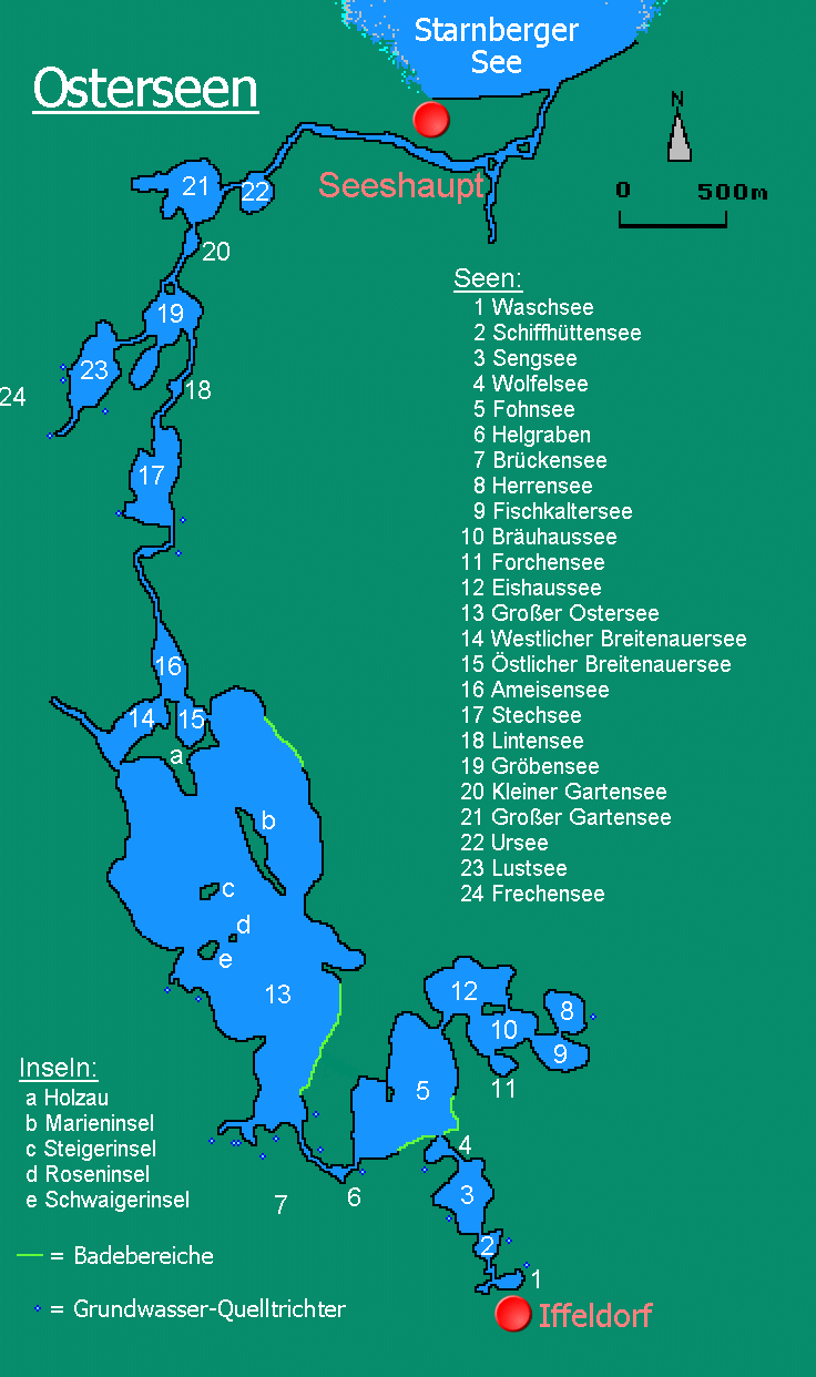 Map of the Osterseen, Upper Bavaria, Germany.